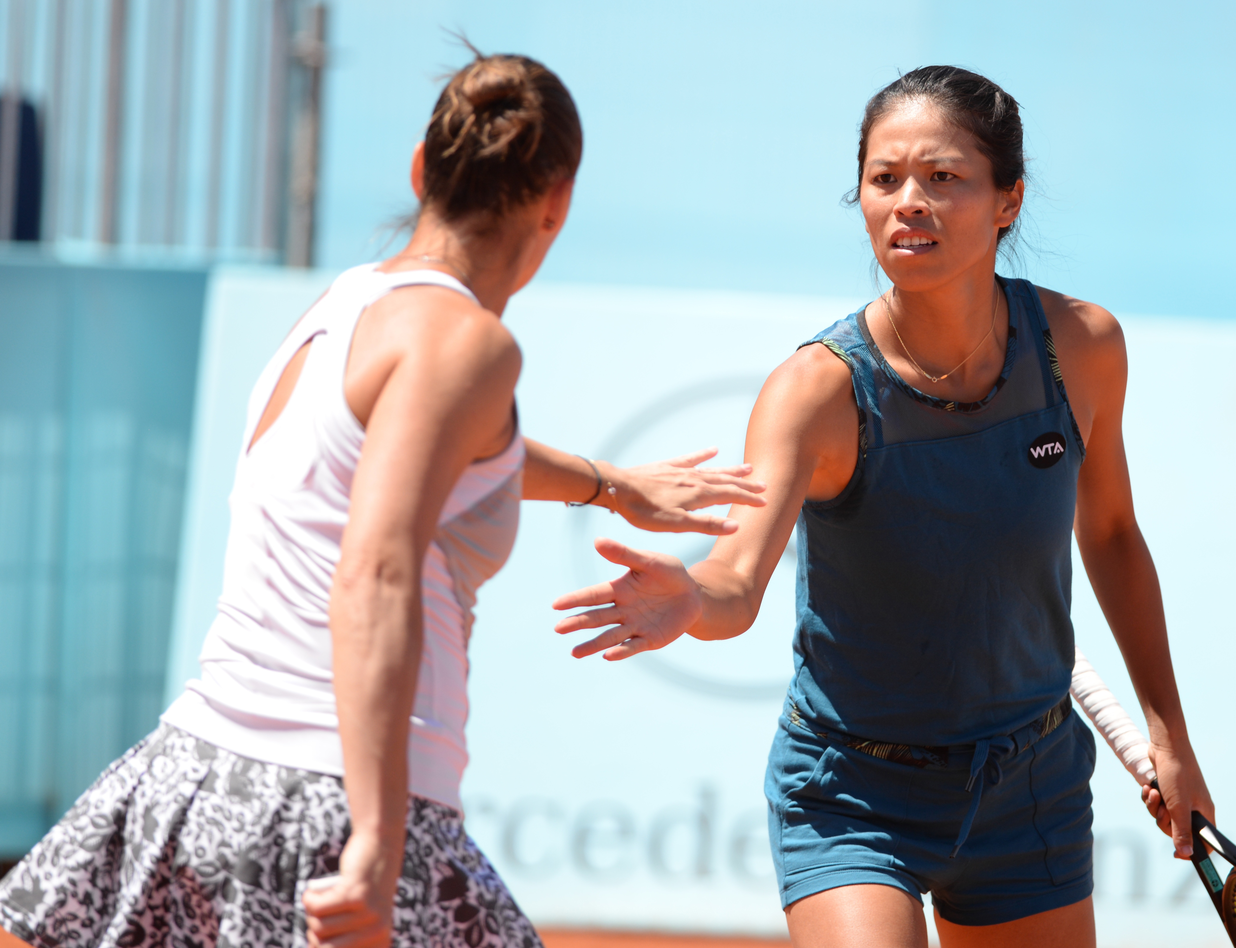 Flavia Pennetta (left) and Hsieh Su-wei (right)